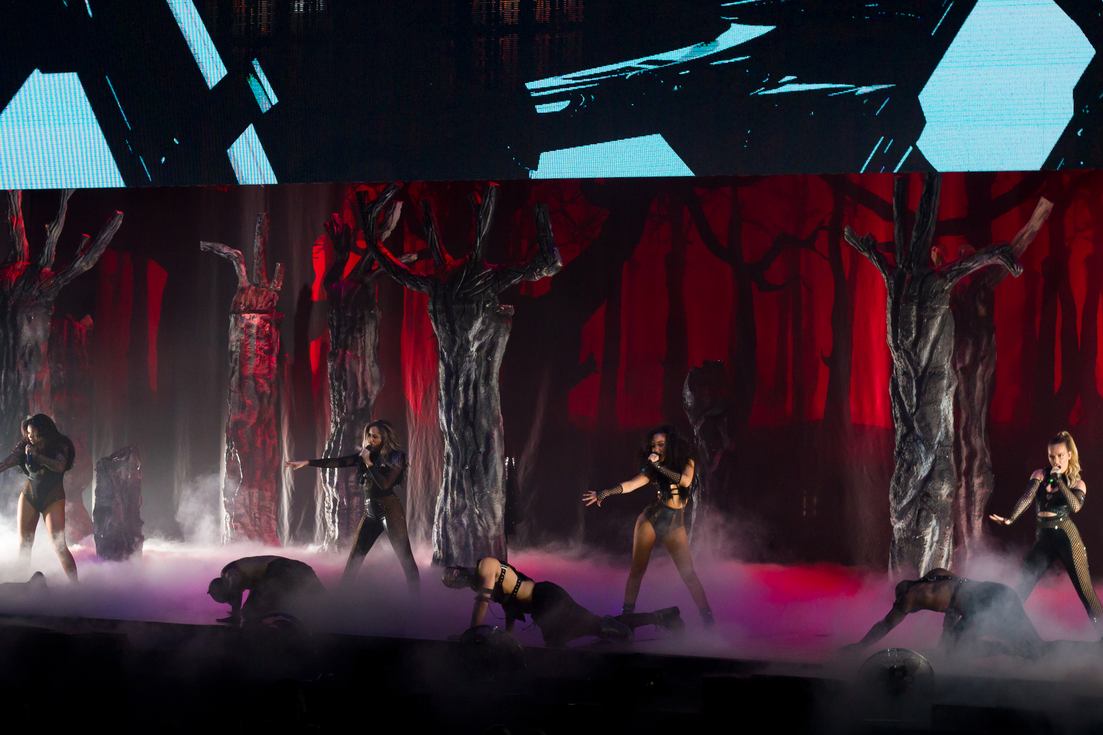 Little Mix